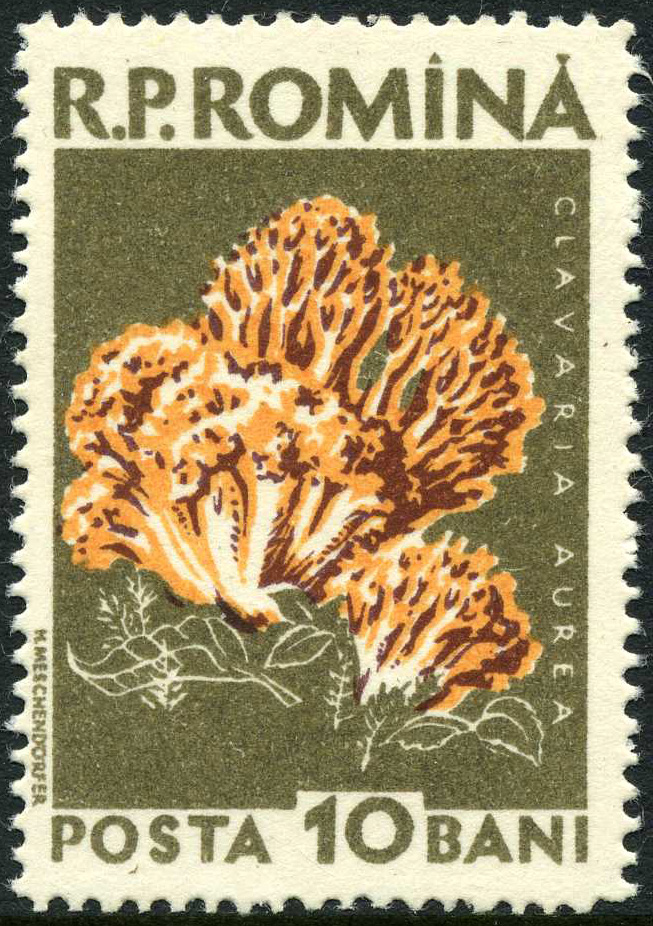 Romanian stamp, 1958, series of mushrooms, Clavaria Aurea